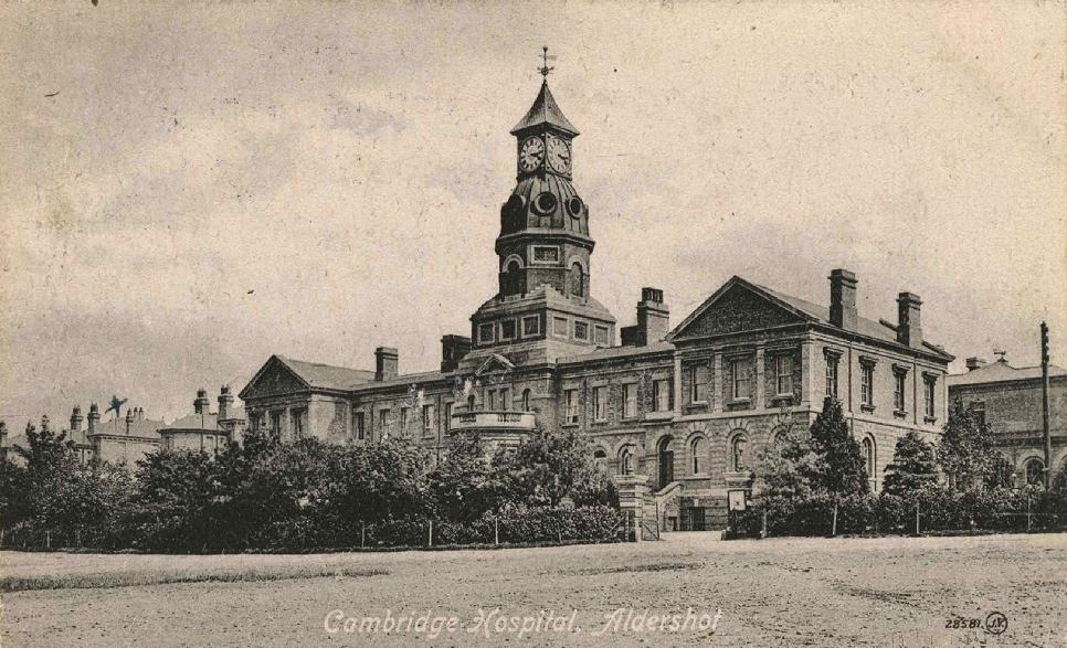 Cambridge Military Hospital, Aldershot Old Print 1891